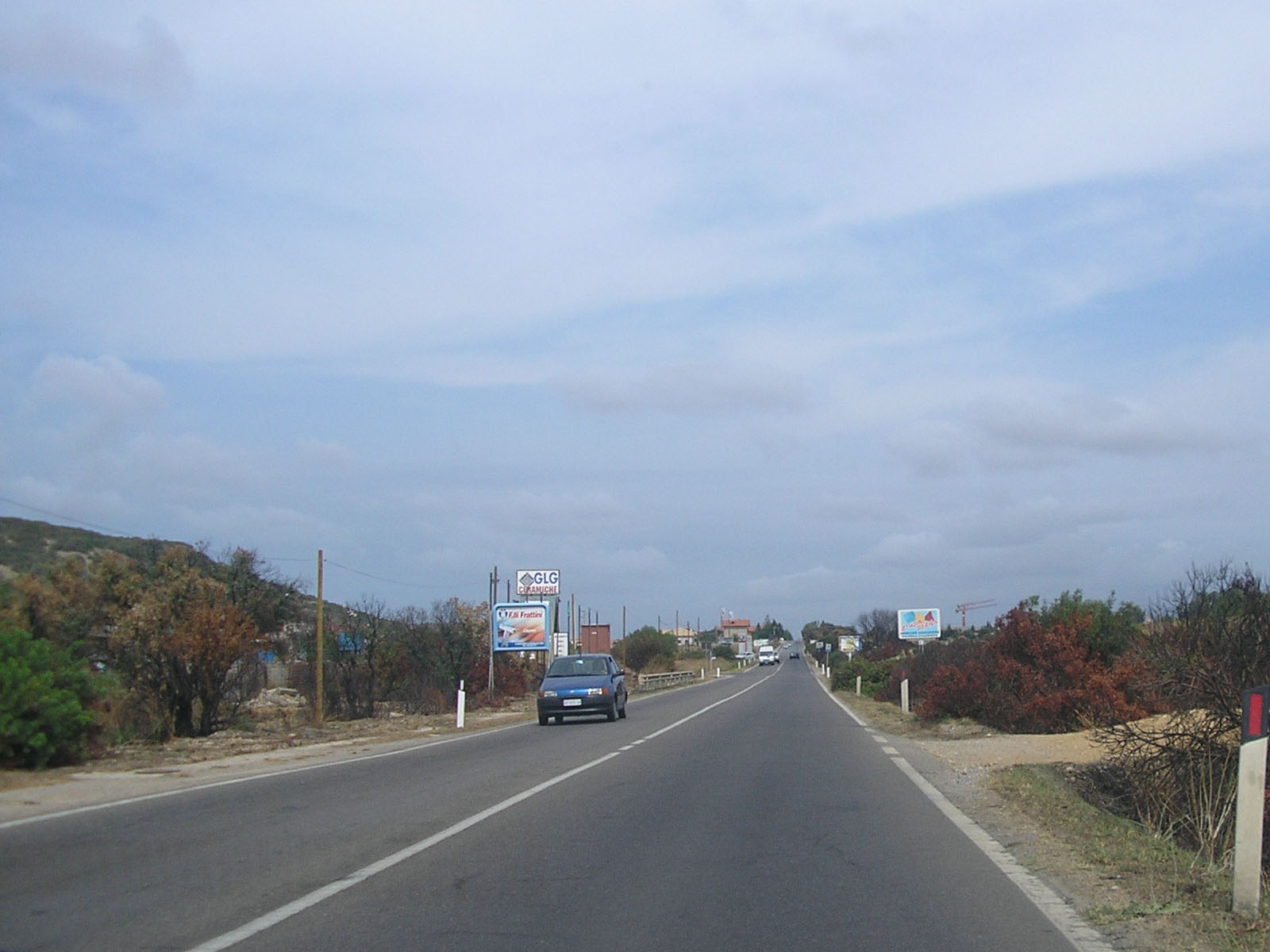 The SS 126 road, in the surroundings of Carbonia, Sardinia, Italy